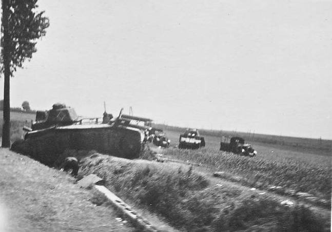 Destroyed french Char B1, France 1940. B1 bis, N°205, Indochine, destroyed on May 17 by friendly fire from a French 47 mm APX anti-tank gun. Near Bazuel, Nord. Other photographs